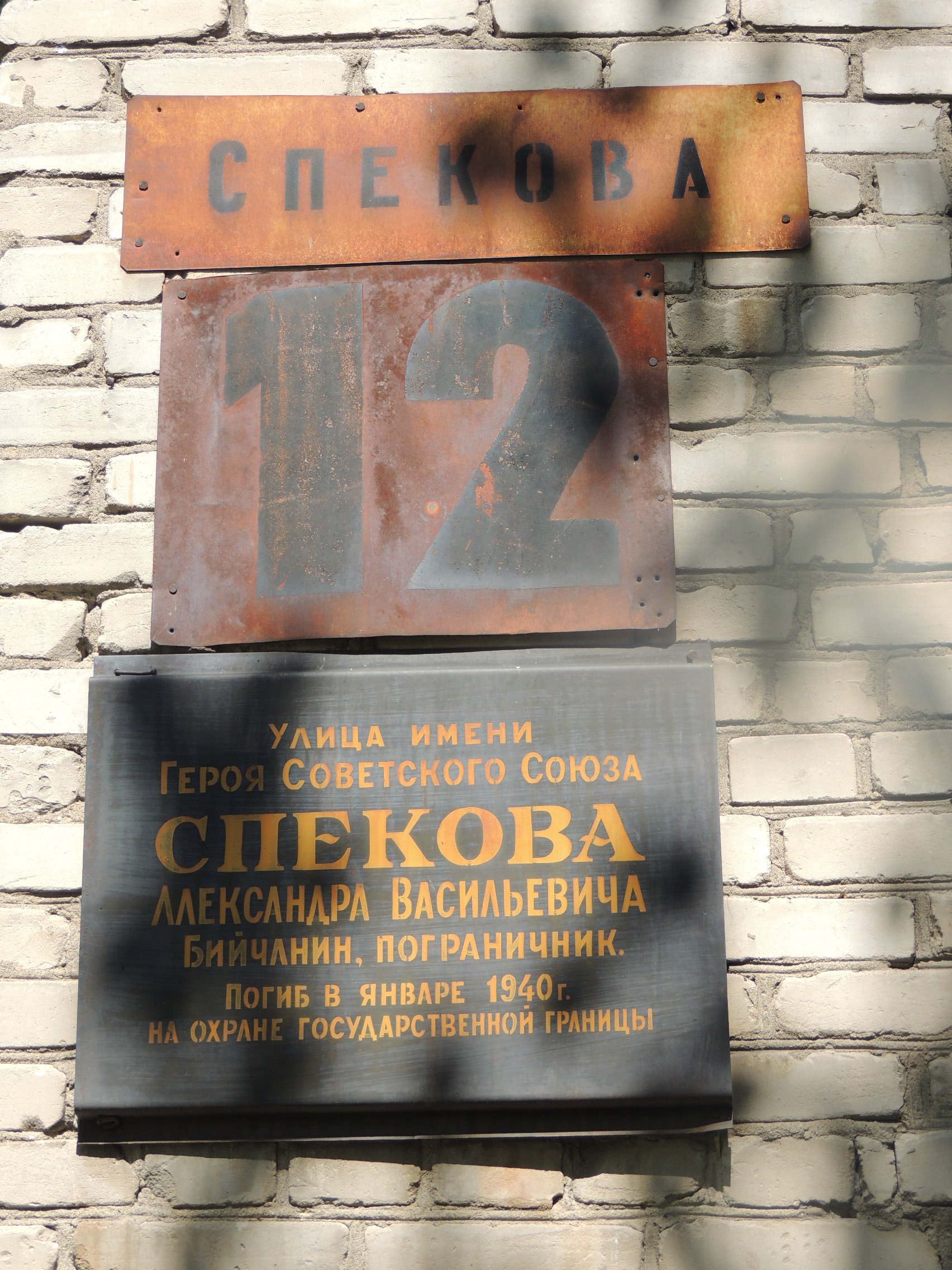 Commemorative plaque in Biysk, Russian Feredation, in the street named after Alexander Spekov, Hero of the Soviet Union.